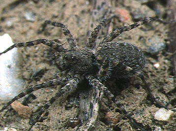 female Wadicosa okinawensis from Okinawa.